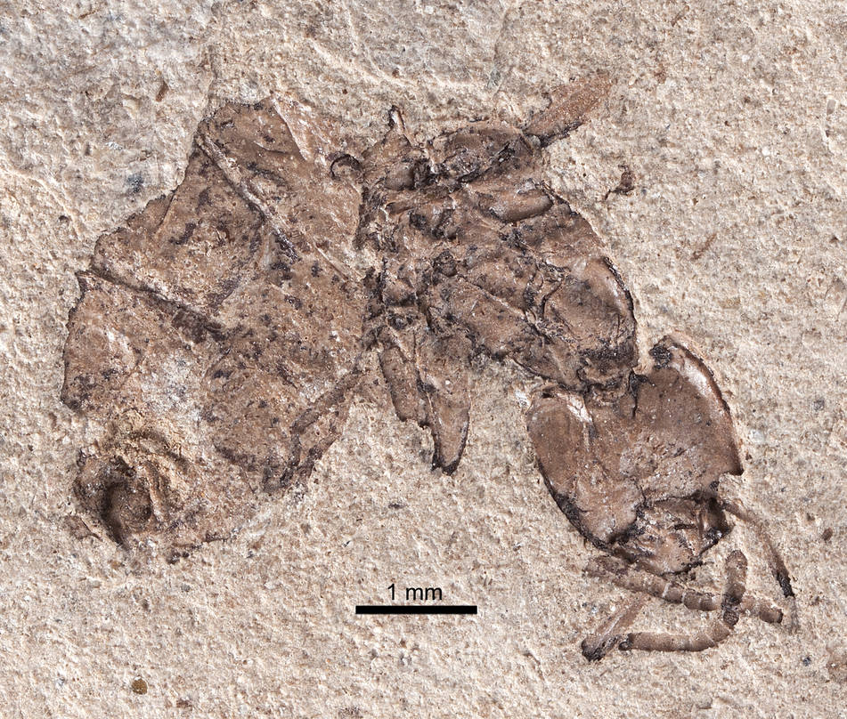 Profile view of an Elaeomyrmex gracilis paratype worker. Chadronian, Late Eocene; Florissant Formation, Florissant, Colorado, U.S.A. University of Colorado Natural History Museum, Boulder, Colorado, U.S.A.; specimen UCM17009B